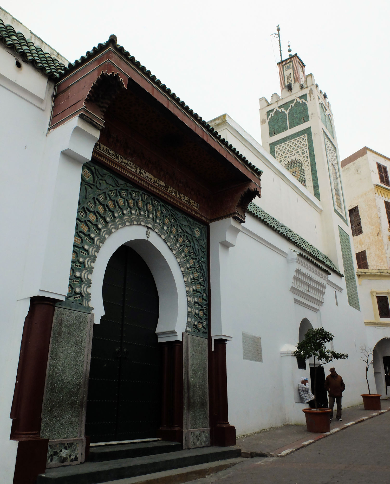 Grand Mosque of Tangier, main entrance and minaret.